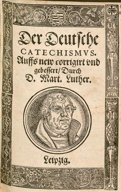 Title page of the Large Catechism of Martin Luther, printed in Leipzig in 1560